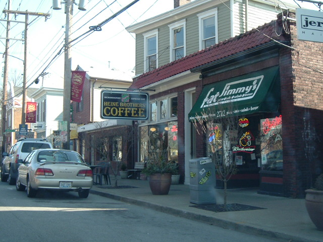 Frankfort Ave LOUKY